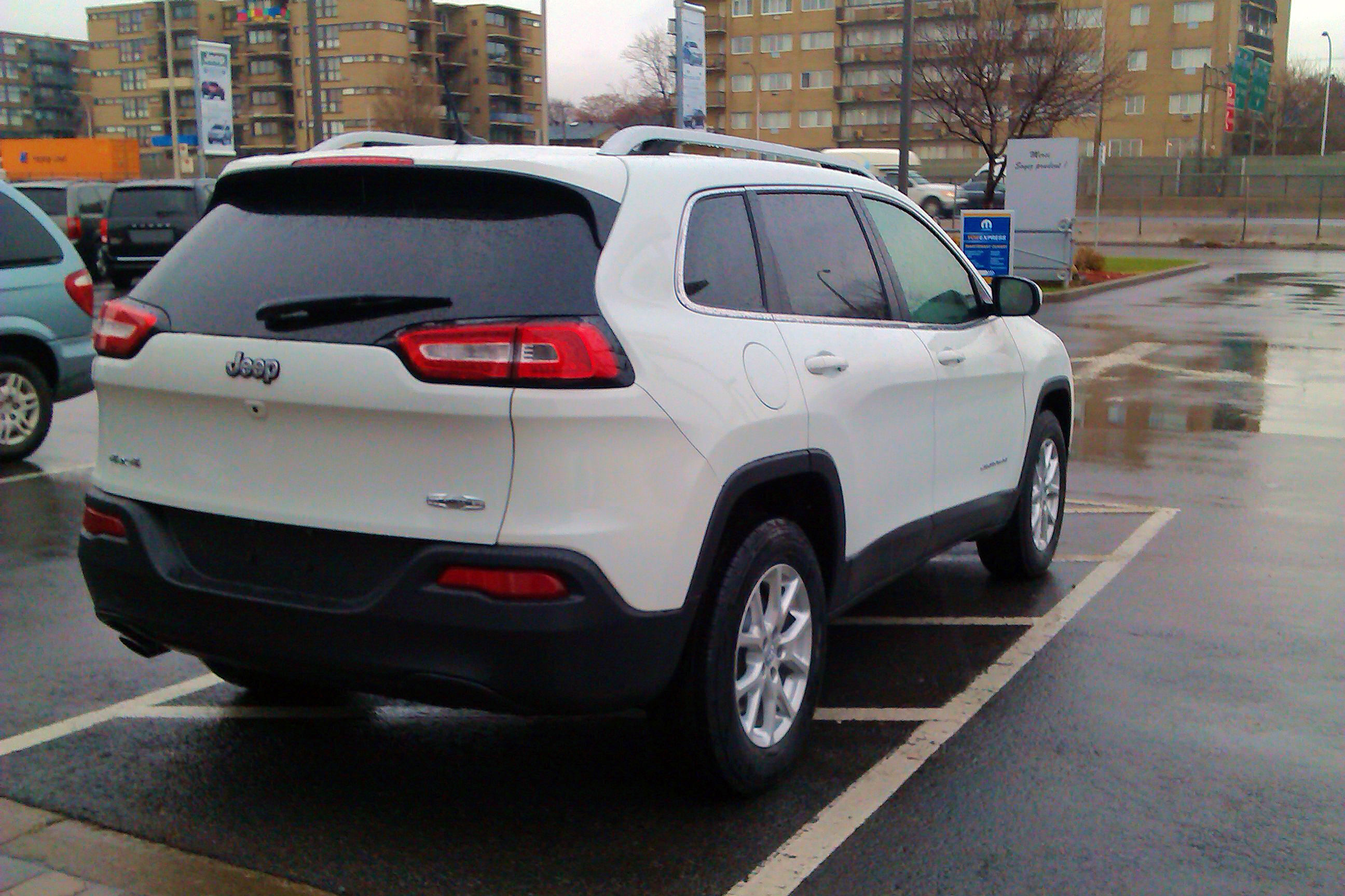 2014 Jeep Cherokee North 4x2 Edition photographed in Montreal, Quebec, Canada. Rear 3/4 view.